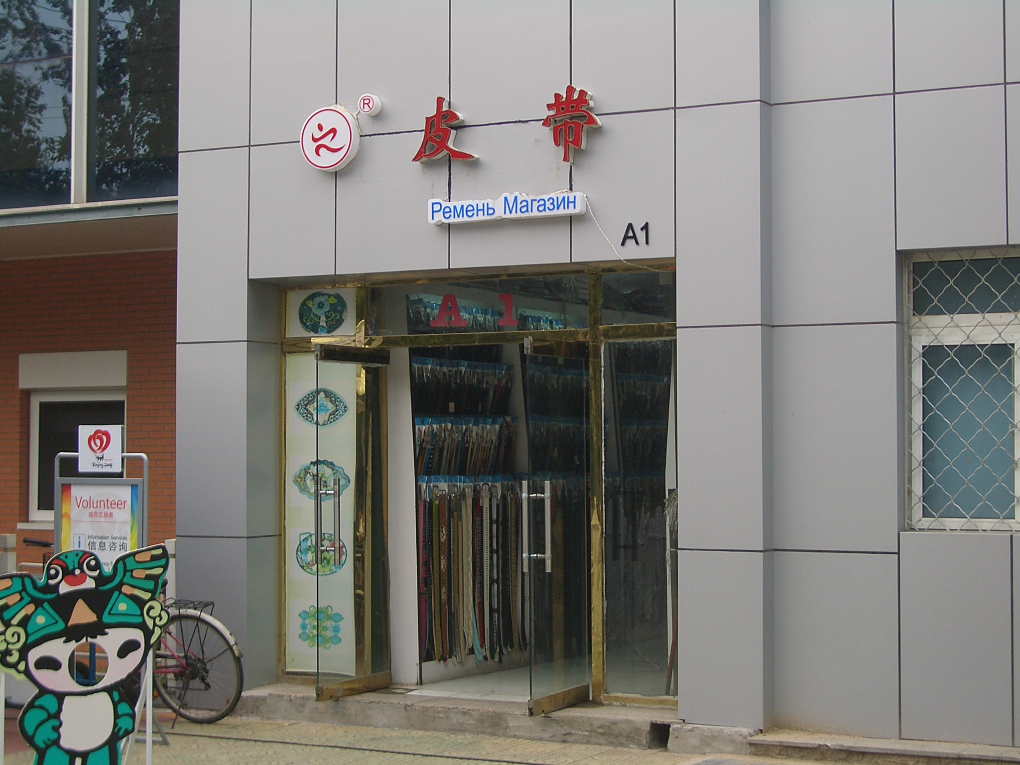 In Yabao Lu (Yabao Street) in Chaoyang District, Beijing